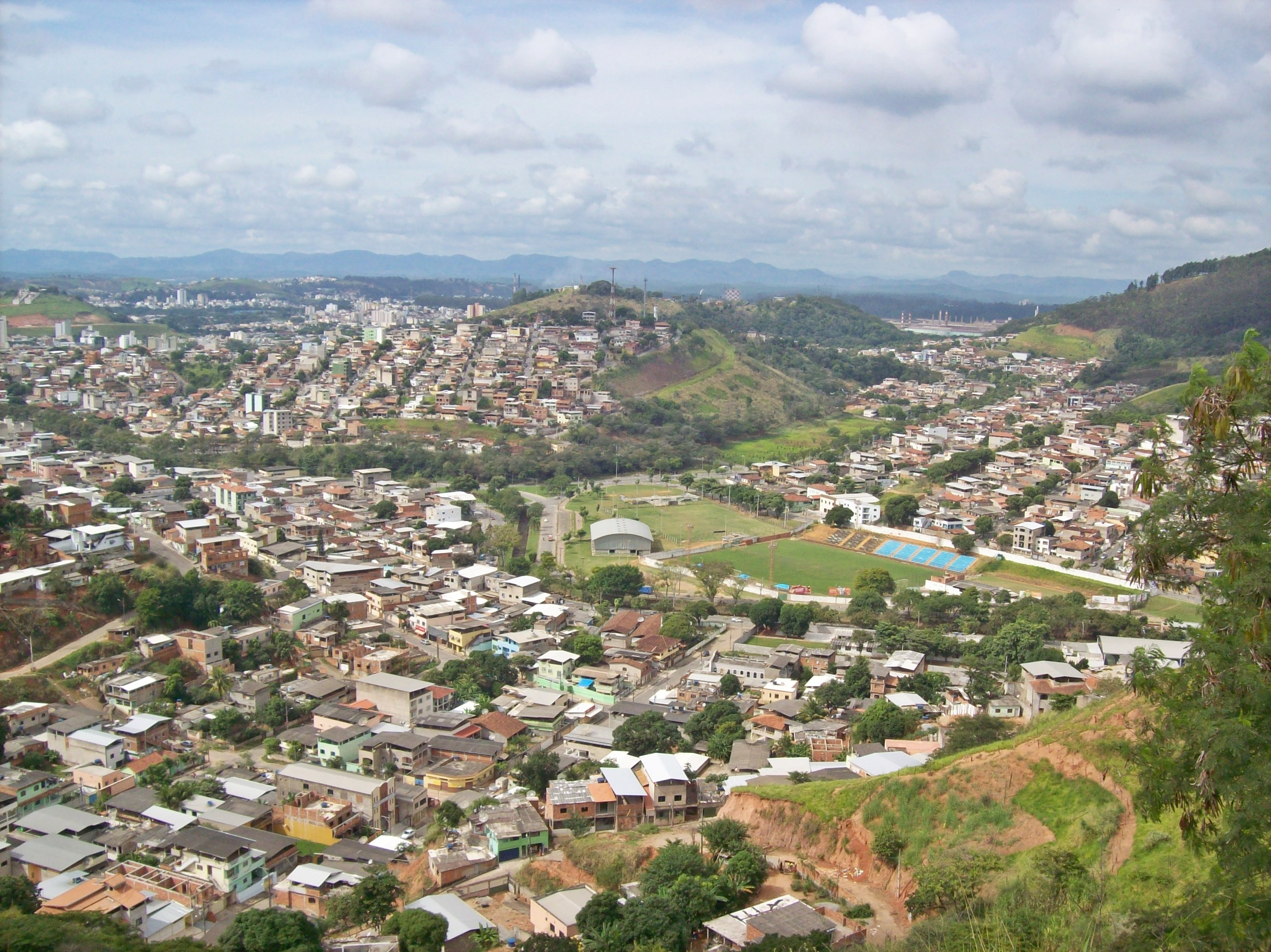 Regions of the Esperança, Ideal and Bom Jardim neighborhoods seen from of the Nova Esperança, in Ipatinga, Minas Gerais, Brazil.